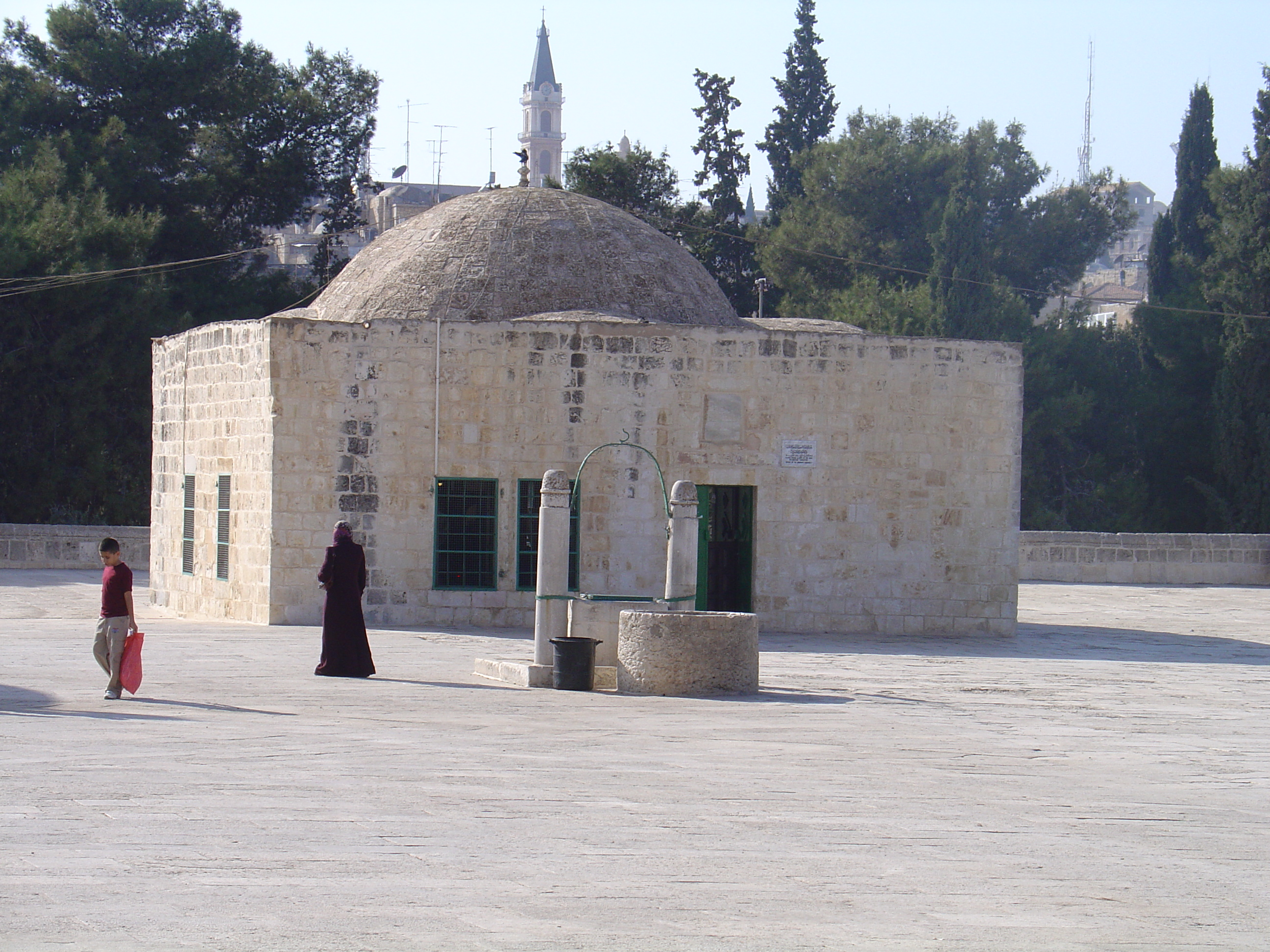 Al-Aqsa Mosque